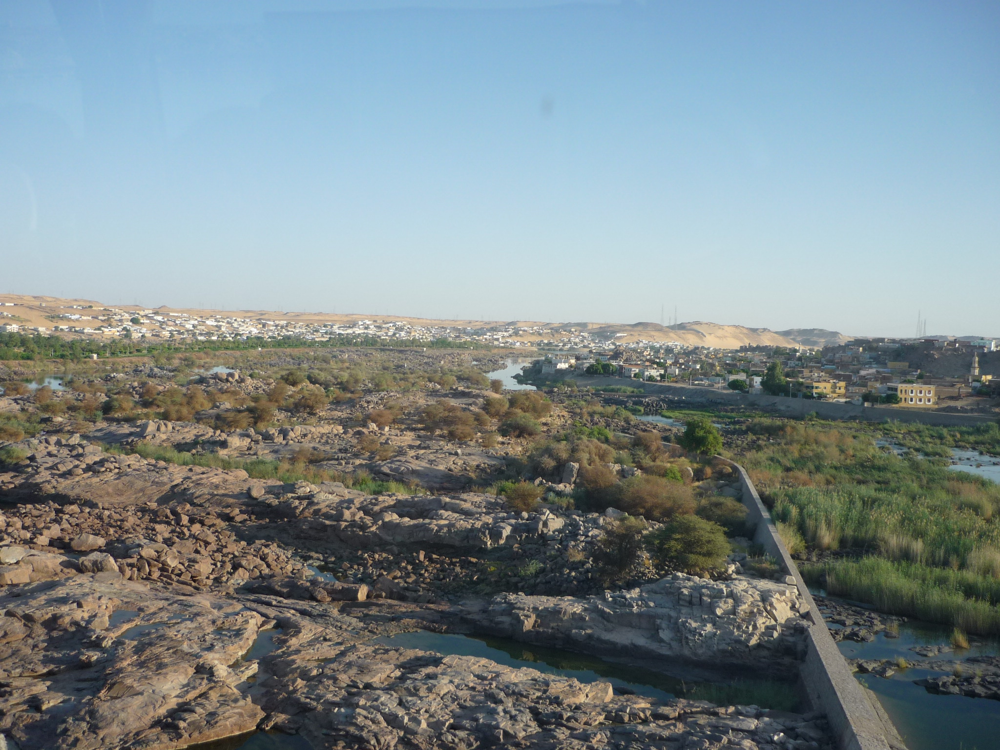 Nile first cataract from Aswan low dam, Egypt